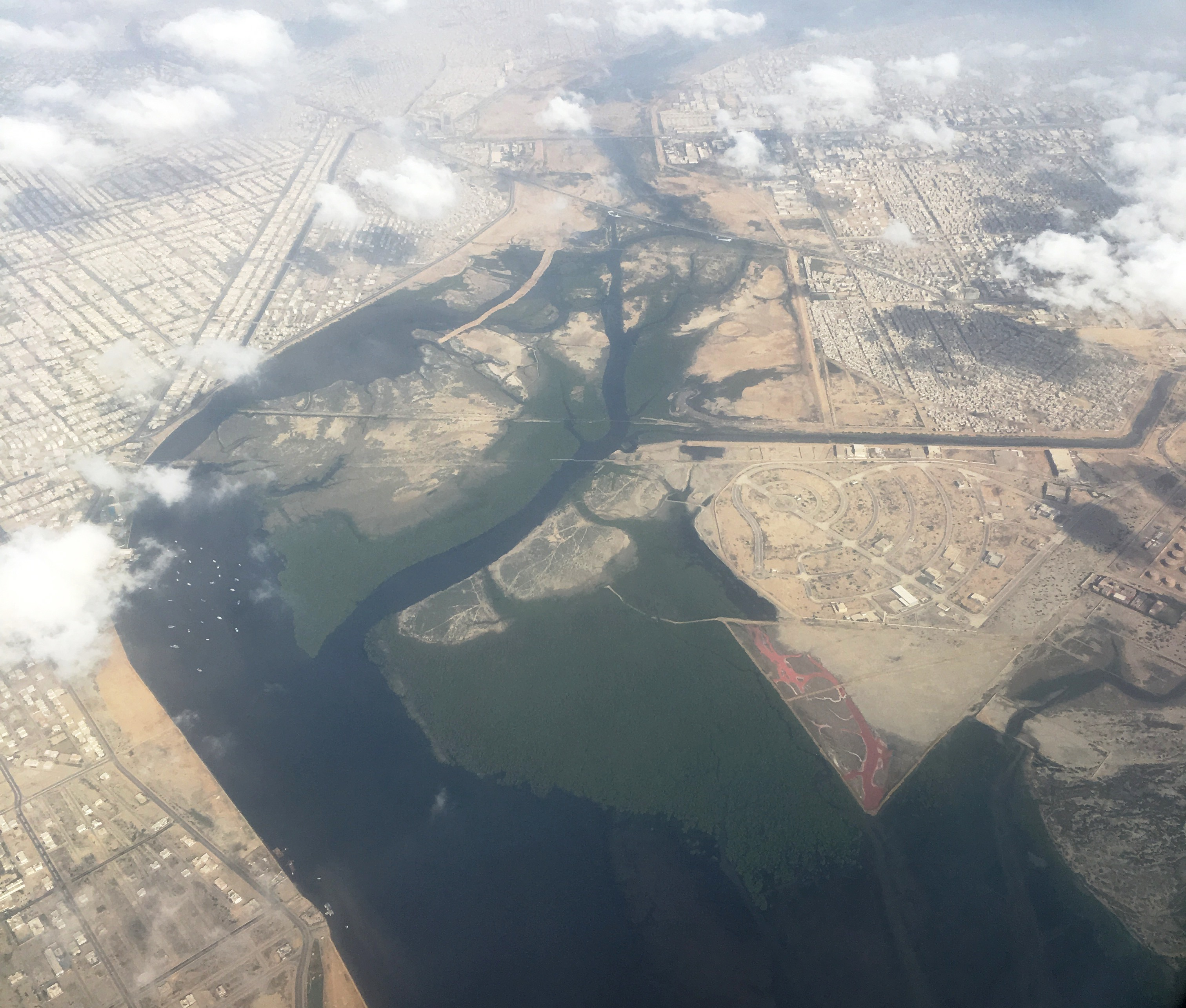 Aerial view from the south towards north, from the district ("tehsil") named Korangi Town, in southeastern Karachi, Pakistan.